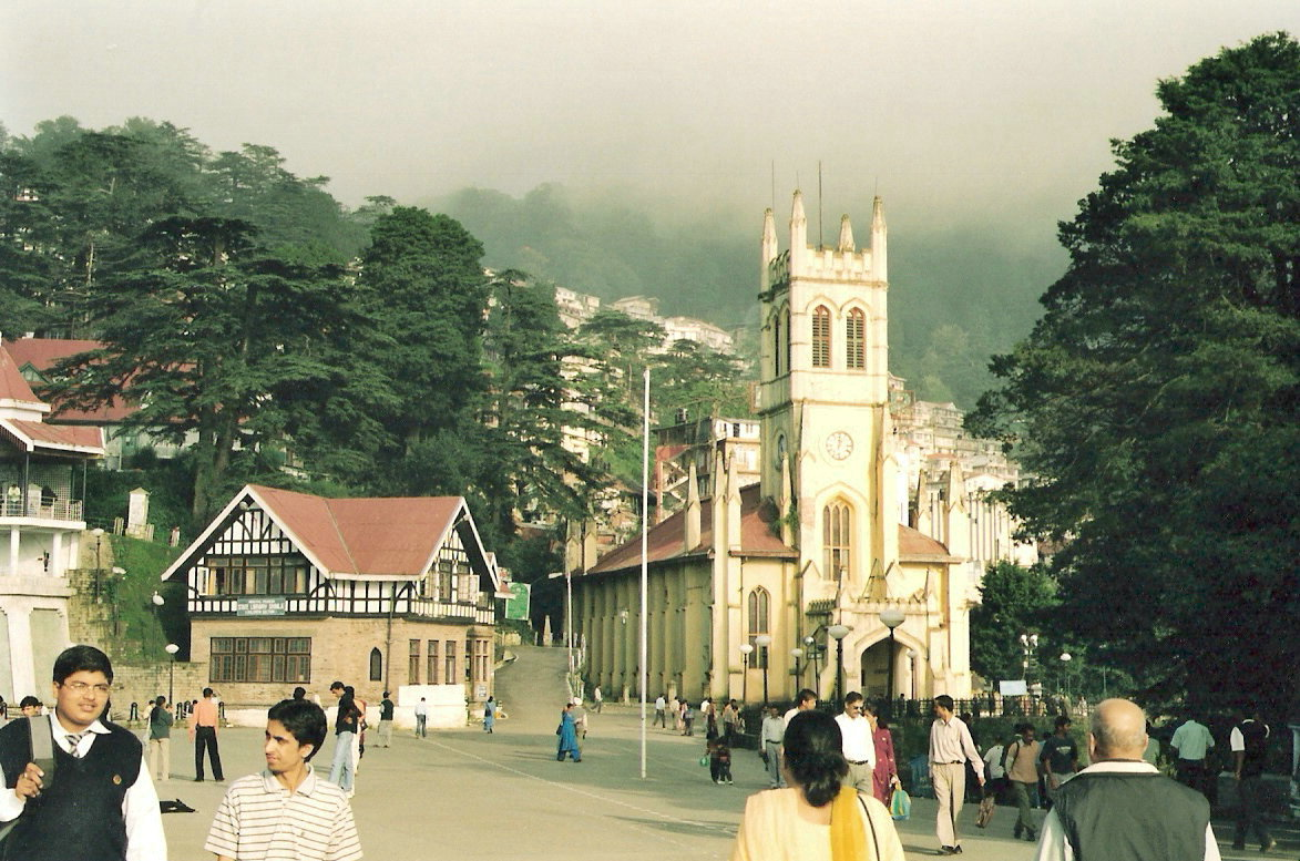 The Mall in Shimla